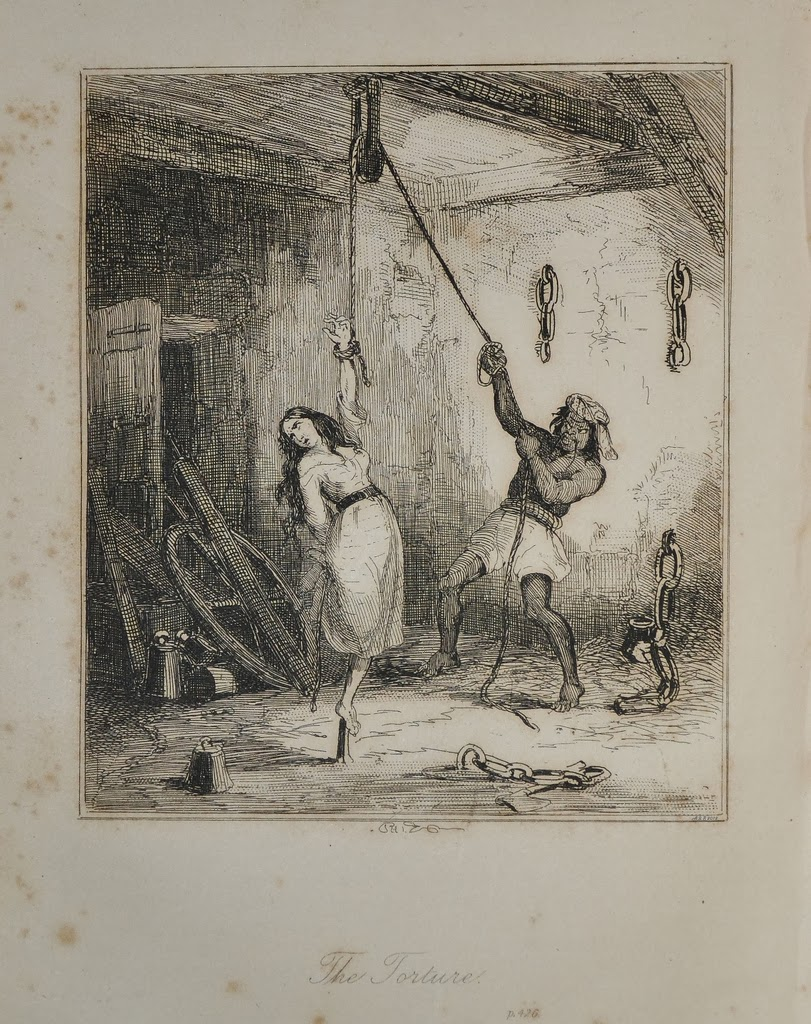 Torture of Luisa Calderón as illustrated in contemporary engraving, 1806 at trial of Thomas Picton